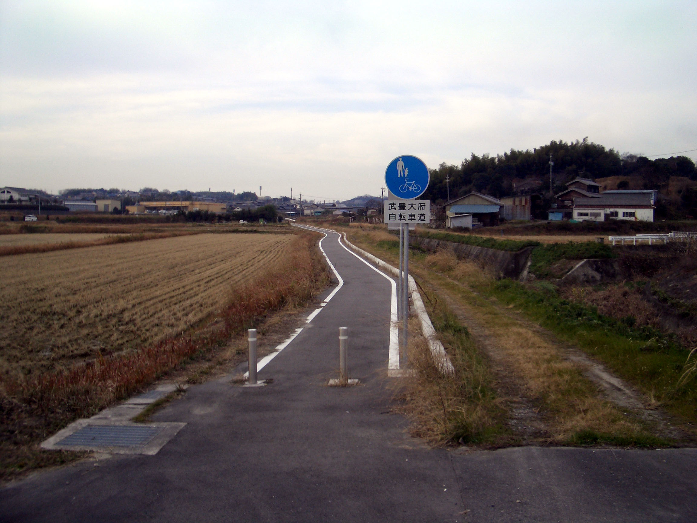 Aichi prefectural road 511, Taketoyo-Obu Cycling Road (Uedai, Agui, Aichi)